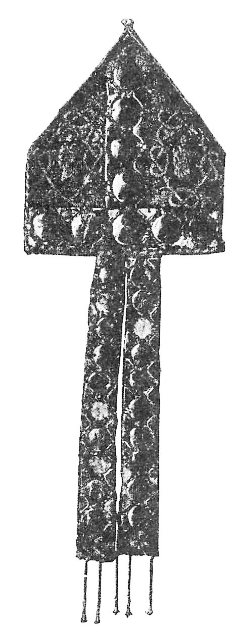 Mitra of the bishop of Linköping, around 1400